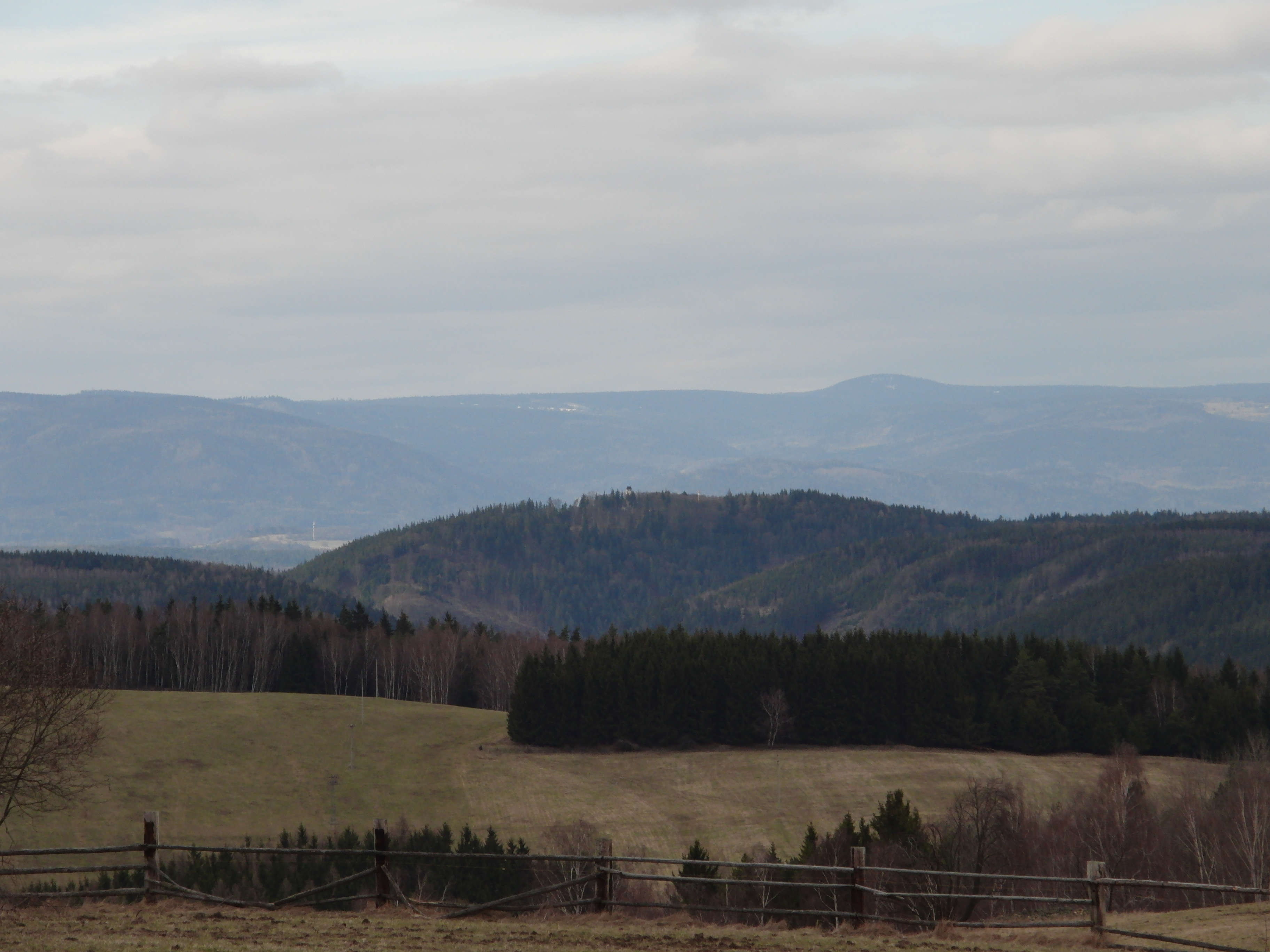 Aberg observation tower over Doubí (Karlovy Vary)